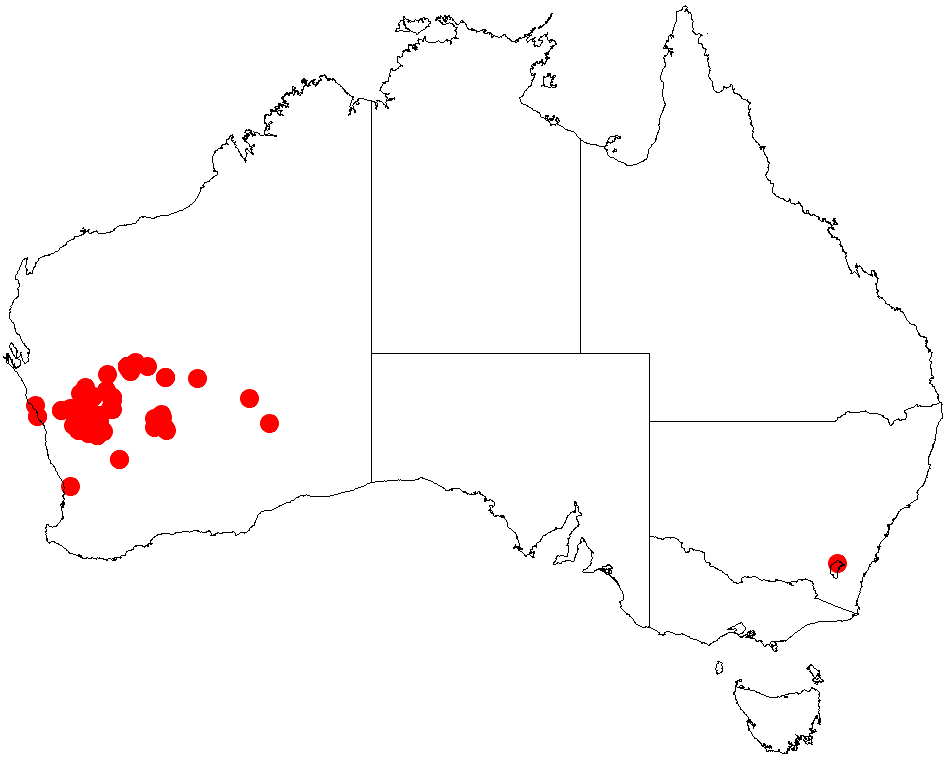 Acacia exocarpoides occurrence data from Australasian Virtual Herbarium downloaded from on December 8 2018